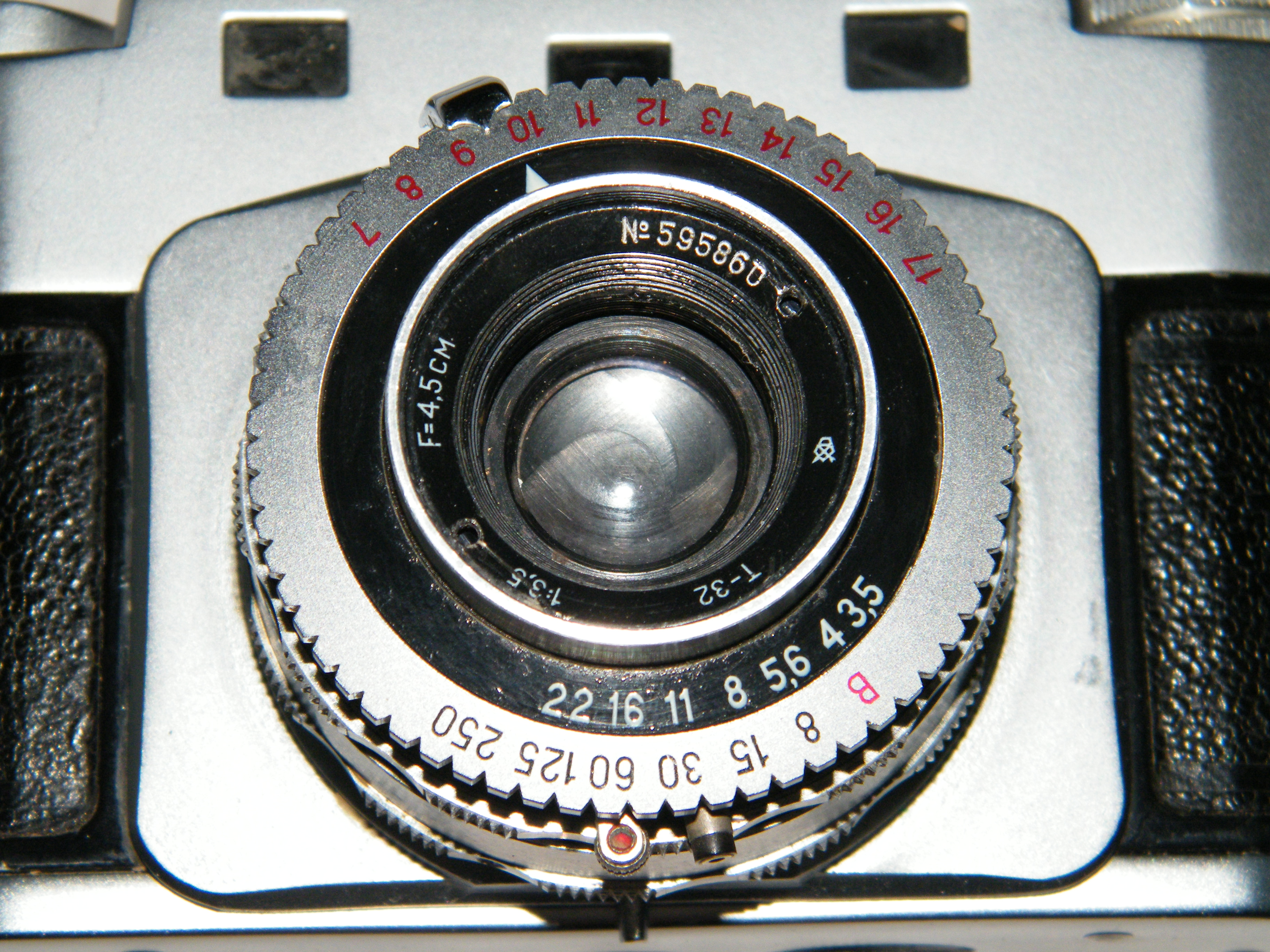 YUNOST LOMO camera from Evgeniy Okolov collection 7